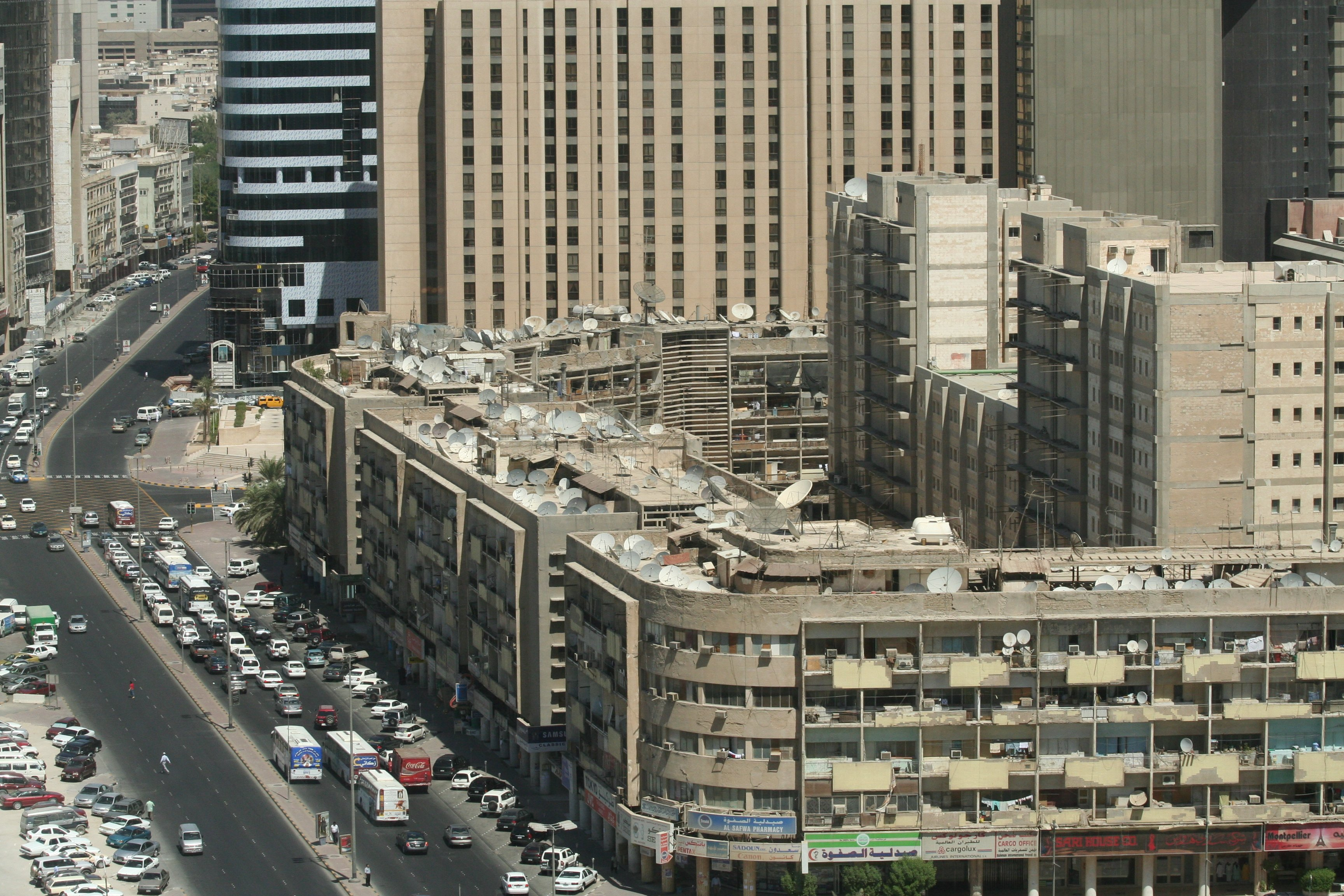 Inter-city road in Kuwait